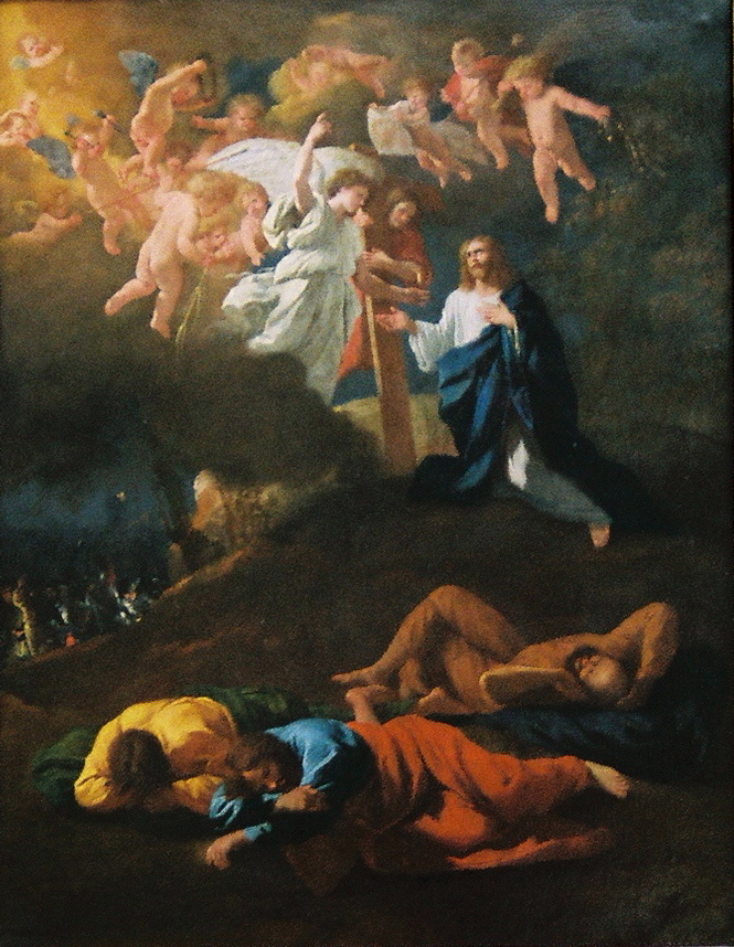 former Barberini Collection, sold at auction for $6.7 million to a private buyer in January 1999